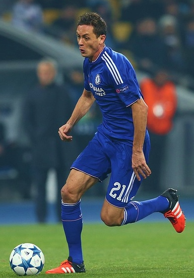 Nemanja Matić